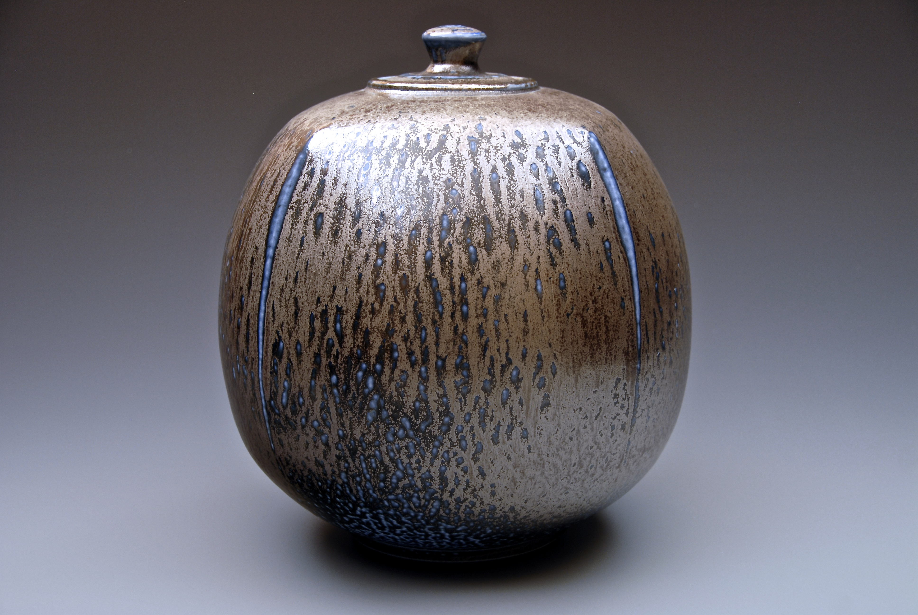 Salt glazed porcelain by John Dermer 2012